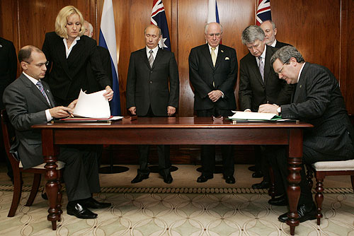 SYDNEY. Ceremonial signing of Russian-Australian documents. Director of the Federal Atomic Energy Agency Sergei Kiriyenko and Australian Foreign Minister Alexander Downer signed the intergovernmental agreement on cooperation in using nuclear energy for peaceful purposes.